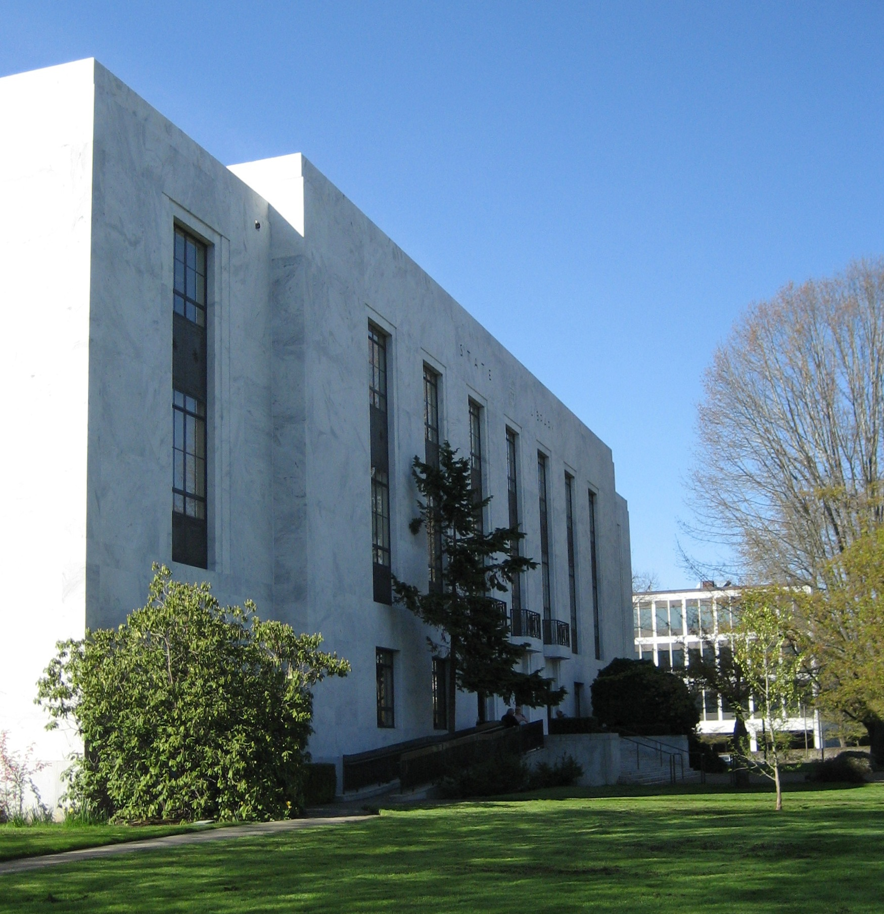 Oregon State Library Category:Images of Salem